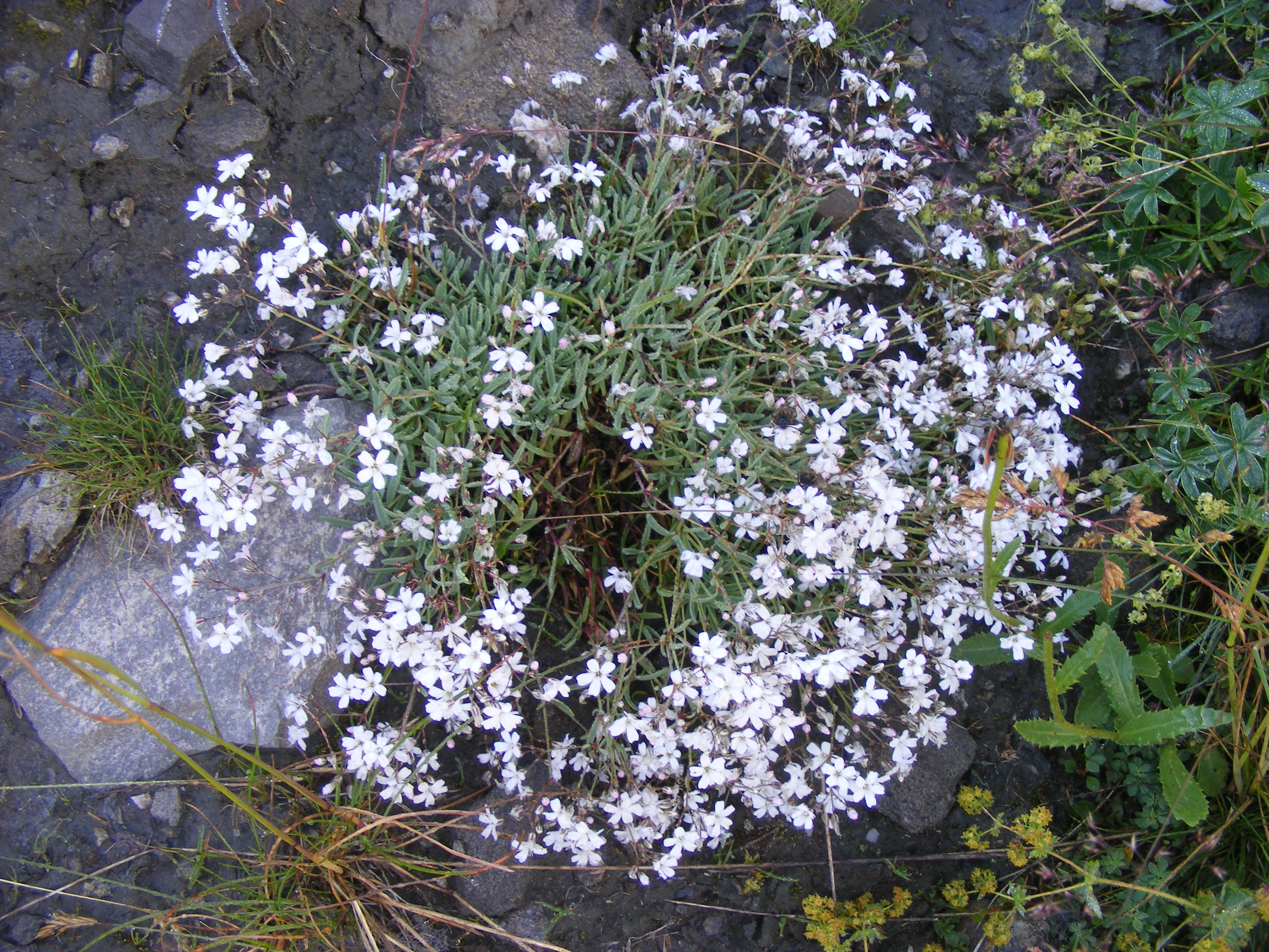 Gypsophila repens'